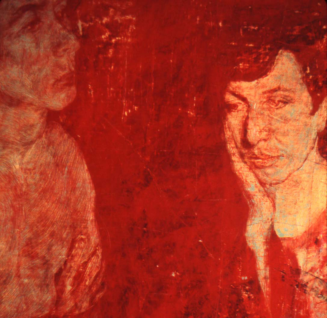 1972 - Jack & Richard - Detail